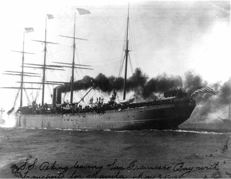 Stern view of City of Peking leaving San Francisco, date unknown